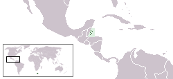 1-Map of the islands (Cayes) of Belize — a small, low-elevation, sandy island formed on the surface of a coral reef. Auteur:Rémih à partir d'une carte du CIA WorldFactBook